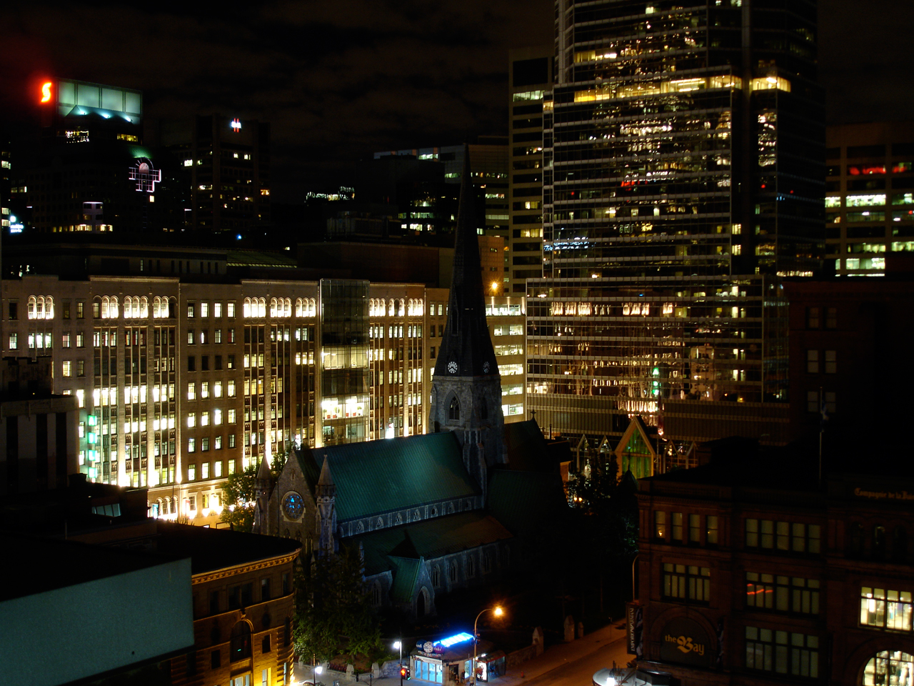 Christ Church Cathedral is an Anglican cathedral. It is the second church to bear the name, the first being a church in Old Montreal that was destroyed by fire in 1856. This Neo-Gothic building was completed in 1859. Although acclaimed for its architecture, the church suffered from serious engineering flaws. The soft ground could not support its original stone tower and steeple, which began to sink and lean. The steeple was removed in 1927; a new foundation was poured in 1939 and in 1940, a lighter aluminum steeple was erected.